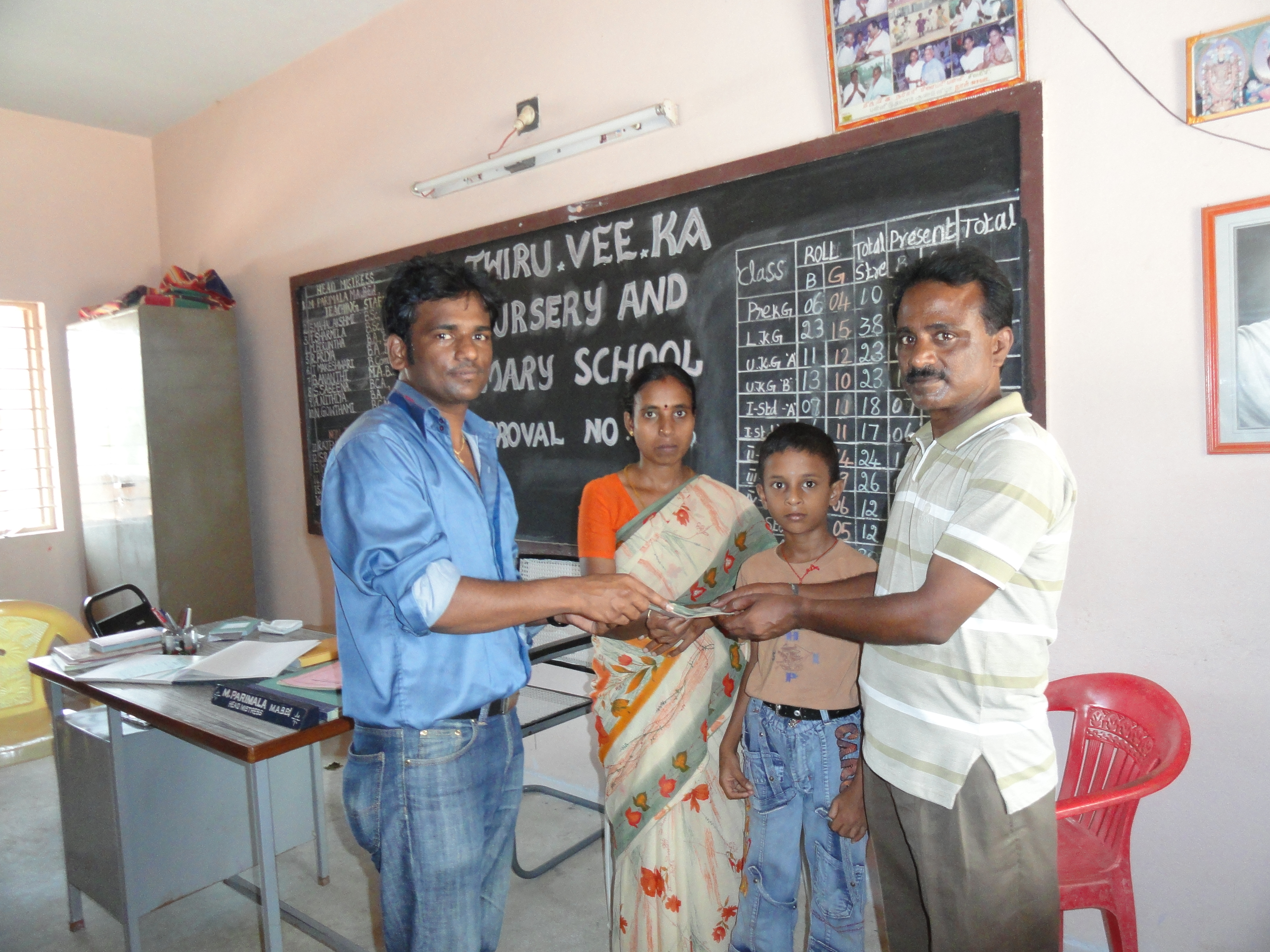 Singing Skylarks Volunteer making donations for Education Sponsor in Karur